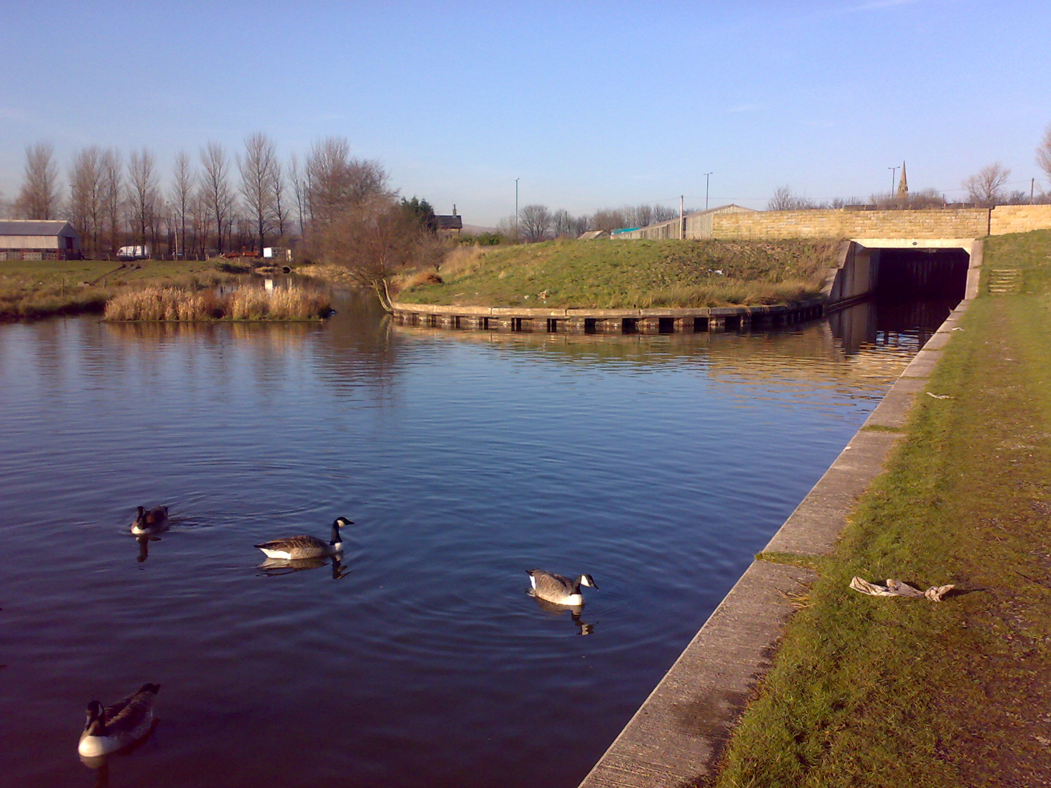 The old route of the Rochdale canal (pre-M62) heads north on the left, where it branched with the Heywood Branch junction